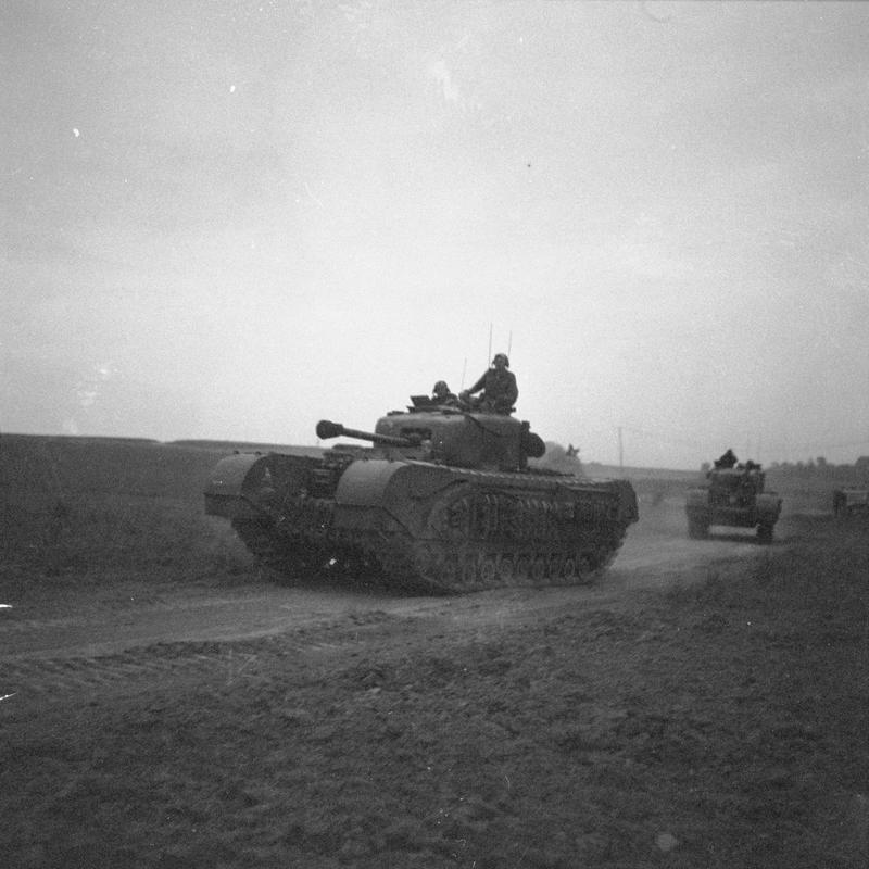 British Tanks Nw Europe 1944-45 Churchill tanks of 31st Tank Brigade move up near Tourville in the Odon Valley for an assault on Hill 112 during Operation Jupiter, Normandy, 16 July 1944.